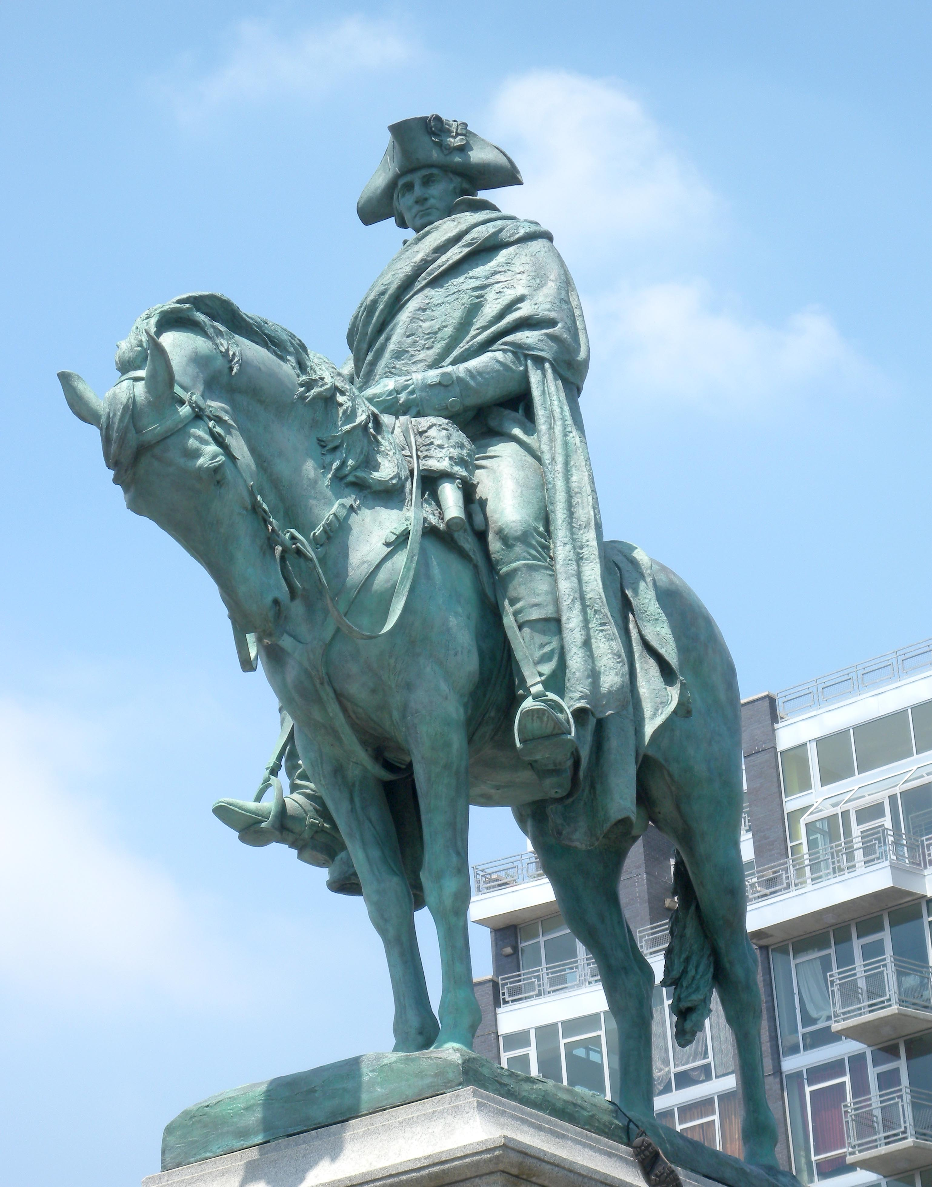 Looking northwest at statue of Geo Washington in Continental Army Plaza, on the north side of South 5th Street and the ramps feeding the Brooklyn side of the Williamsburg Bridge, on a sunny midday.